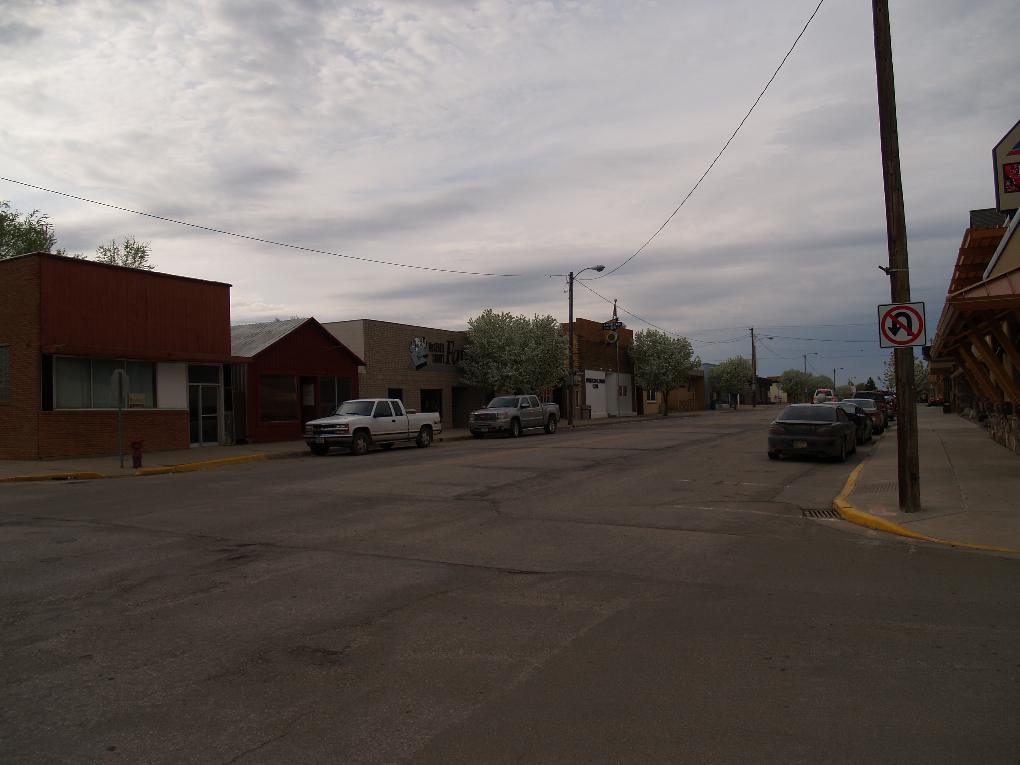 Watford City, North Dakota